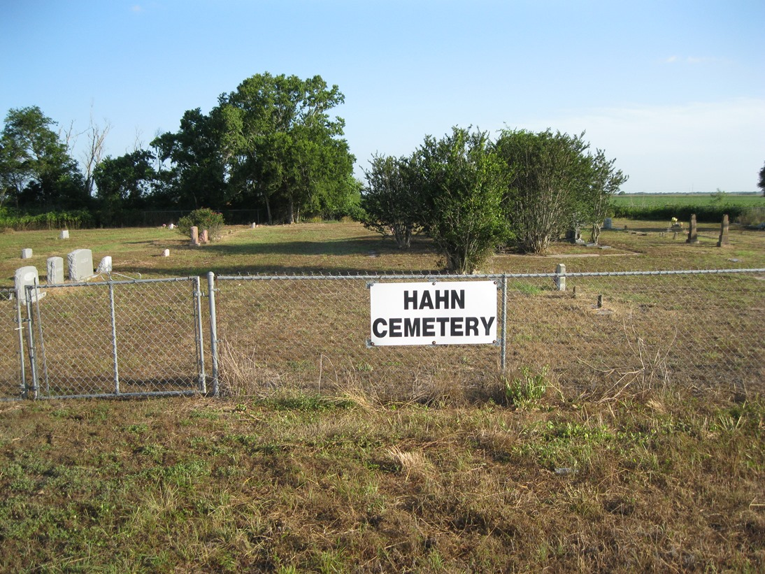 Photo shows the Hahn Cemetery on the south side of FM 2546. The location is 0.7 miles east of the FM 1160 and 2546 crossroads at Hahn, Texas. View is south.